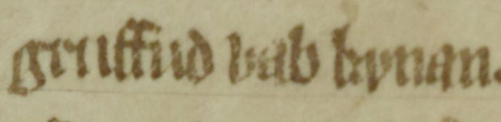 An excerpt from folio 254r of Oxford Jesus College MS 111. The excerpt concerns a certain Gruffudd ap Cynan, King of Gwynedd (died 1137). The excerpt reads: "gruffud vab kynan".